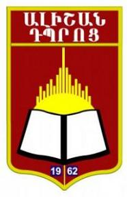 Logo of Alishan Armenian school in Tehran.